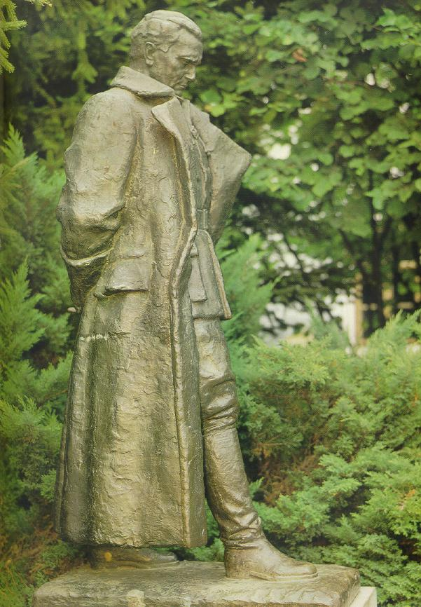 Tito's statue in Kumrovec, Croatia, by Antun Augustinčić (1900-1979)